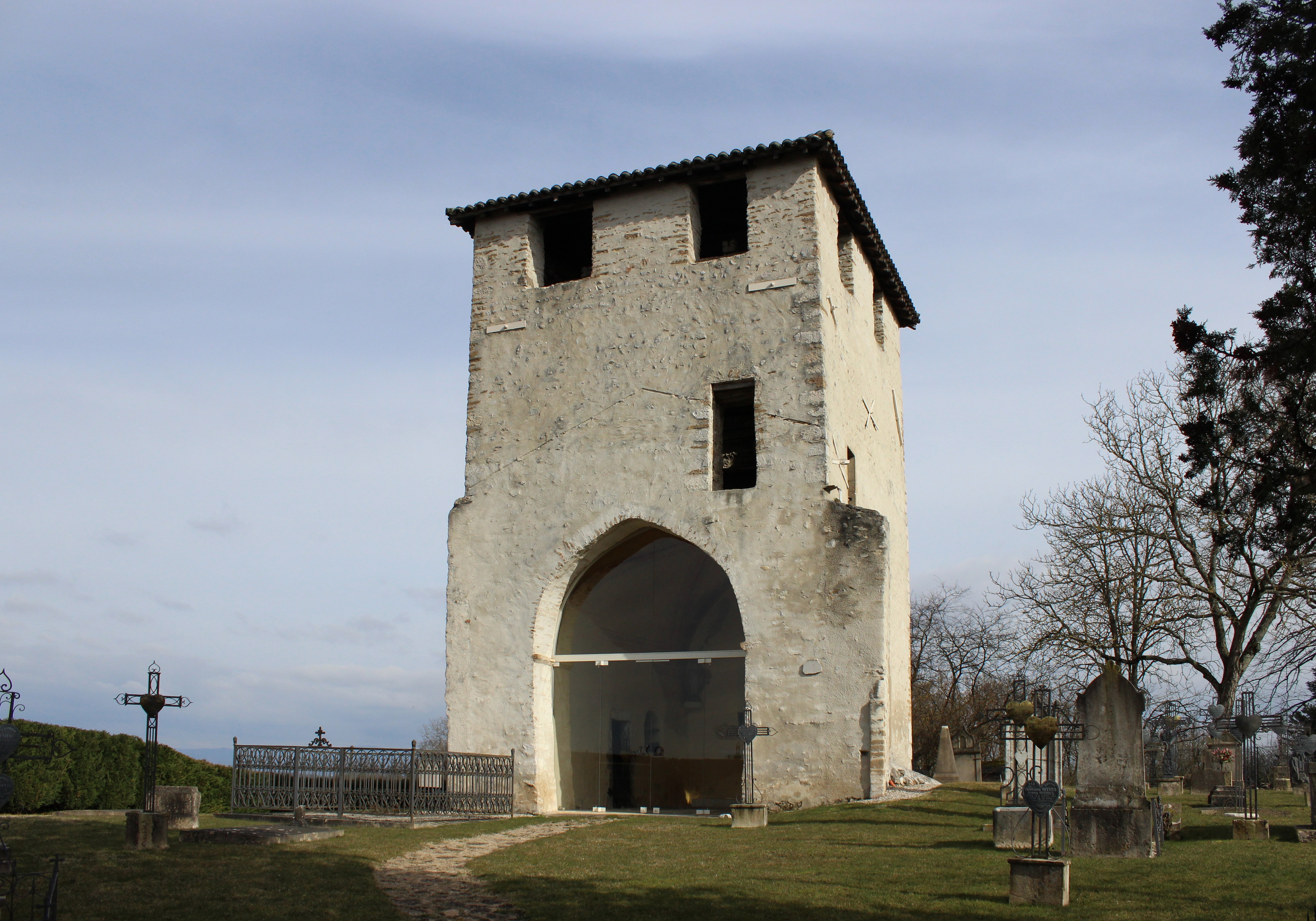 L'église Saint-Martin de Villette-d'Anthon.